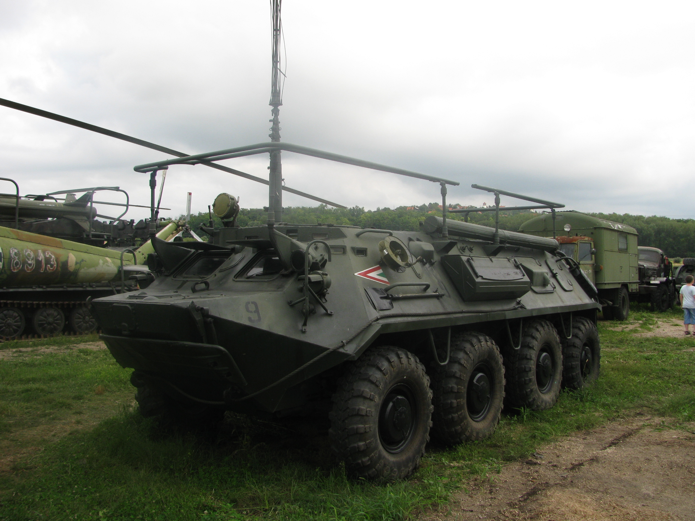 R-145BM «Chayka» — Russian commando staff vehicle (KShM), on base of the infantry fighting vehicle BTR-60PA, here: R-145BM in the National military museum Zamárdi (Hungary).